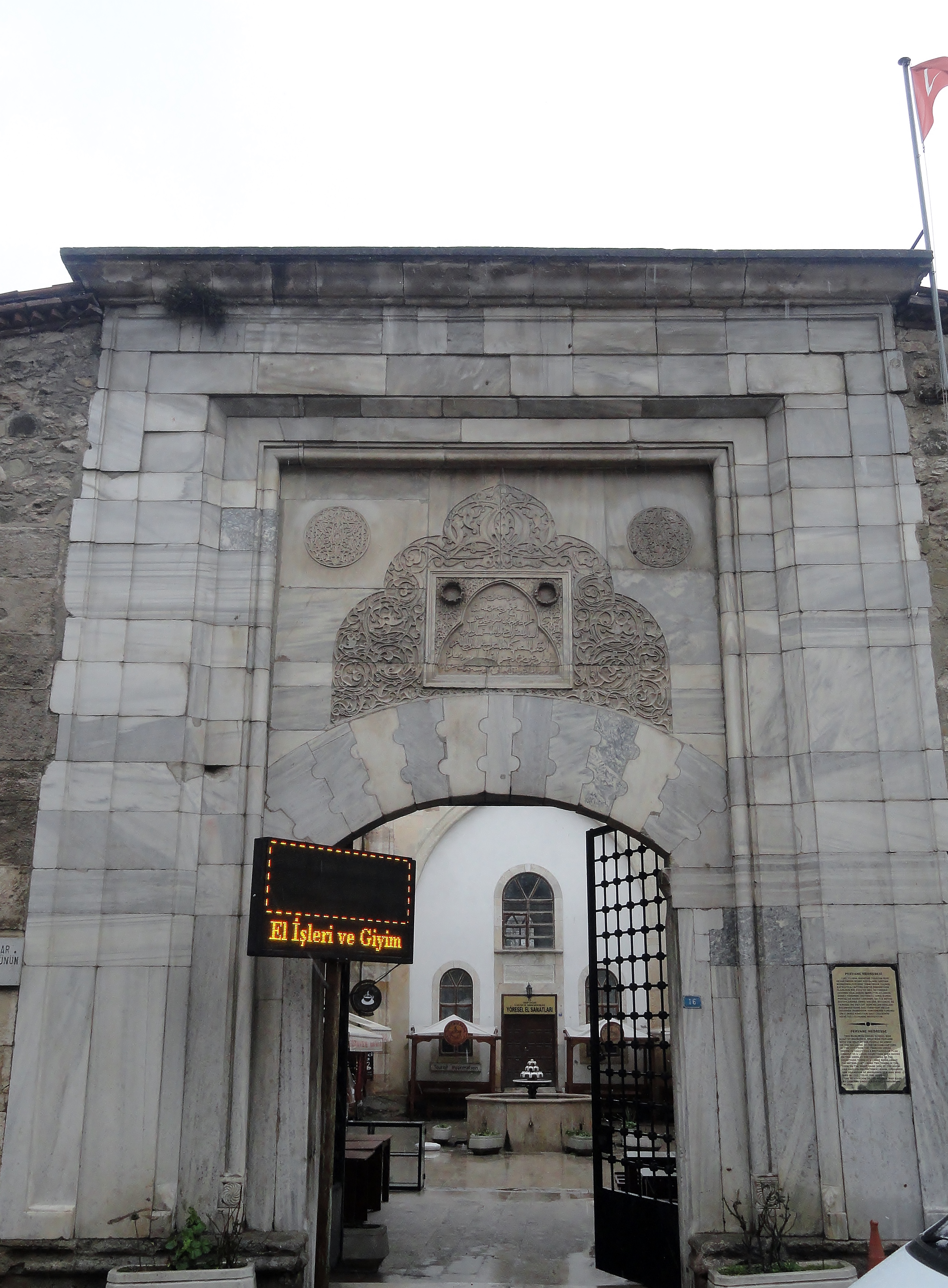 Perwana Madrasah, Sinop